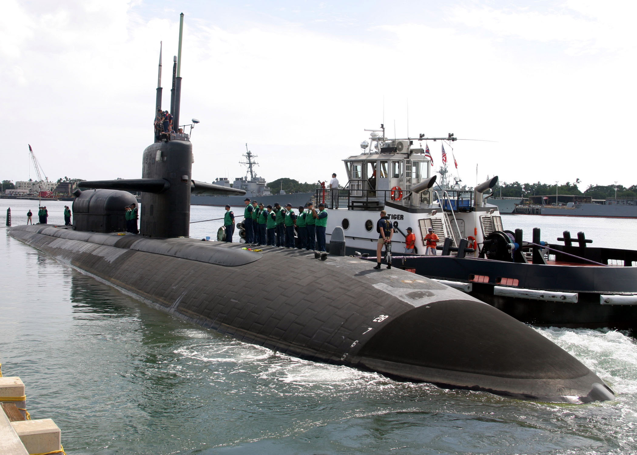 Pearl Harbor, Hawaii (Feb. 23, 2004) – A tug gently guides the nuclear-powered Los Angeles-class attack submarine USS La Jolla (SSN 701) away from its pier as it heads out for a scheduled Western Pacific deployment. The submarine is equipped with the Special Operations capable Dry Deck Shelter (DDS), which can allow special operation forces including Navy SEALs (Sea, Air, Land) to deploy undetected from deployed submarines. U.S. Navy photo by Journalist 3rd Class Corwin Colbert. (RELEASED)